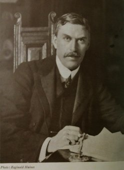 Portrait of Charles Silvester Horne, by Reginald Haines (1872-1941), included in the book The Life of Charles Silvester Horne (1920) by W B Selbie.